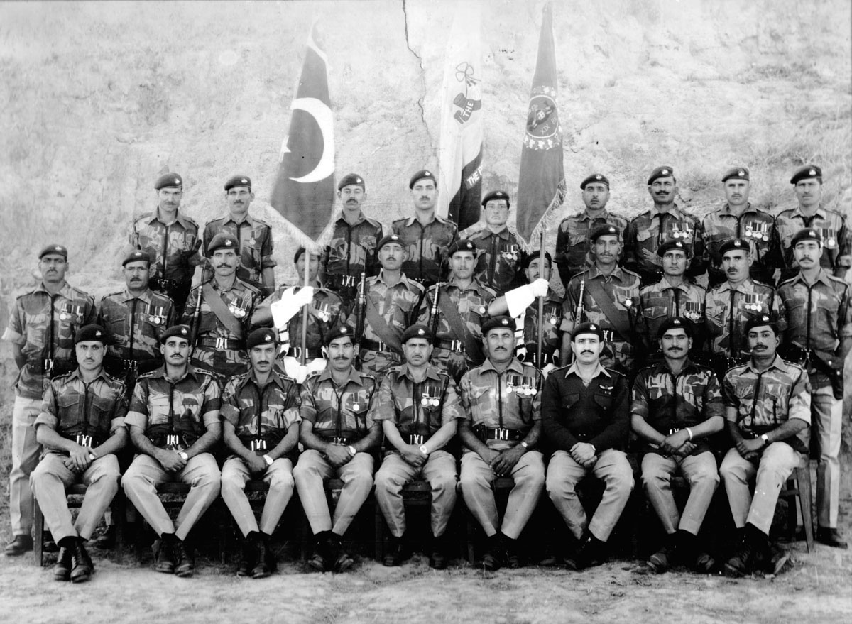 Group photo taken on the eve of Pakistan Day in 1974